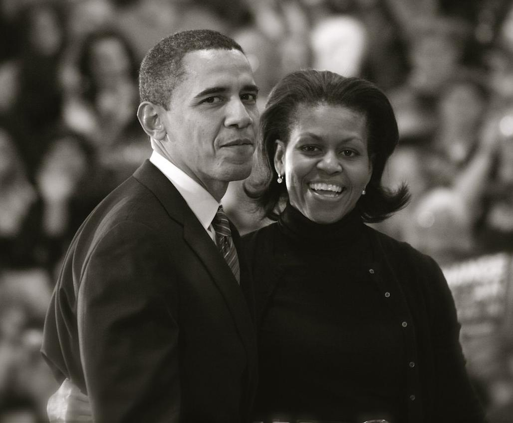 Barack Obama and Michelle Obama exciting the stage after a campaign stop in Des Moines, IA. (Cropped from original picture)